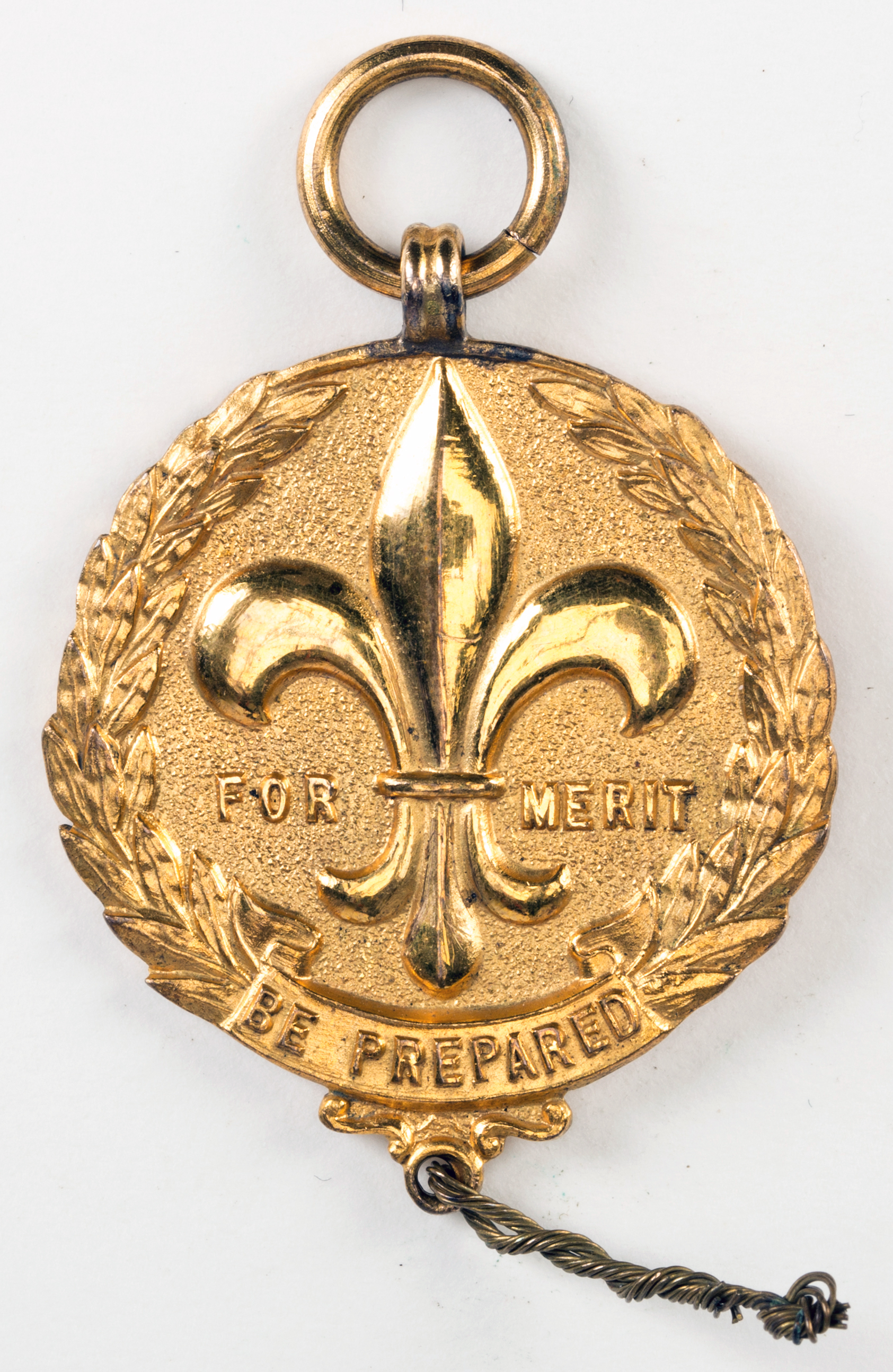 Boy Scout badges- ' For Merit' and lapel pin badge Scout badges that belonged to Lt Col. Percival Clennell Fenwick, Dominion Chief Commander Boy Scouts Association, circa 1929. .1 Boy Scout Merit badge circular gold badge; fixed loop suspension with ring above and small suspension loop at lower edge, with short length of stranded wire attached obverse- Boy Scout fleur de lis emblem inside laurel wreath; on either side of the fleur de list the words FOR - MERIT; base scroll with scout motto- BE PREPARED reverse- plain, with maker's mark markings- reverse- maker's name- J.A. WYLIE and CO - LONDON .2 Boy Scout (Commander's) lapel badge or hat pin (gilt) and enamel stick pin badge form- Boy Scout fleur de lis emblem in green enamel; at centre the letter C, with a star on either side; stick pin attached verso